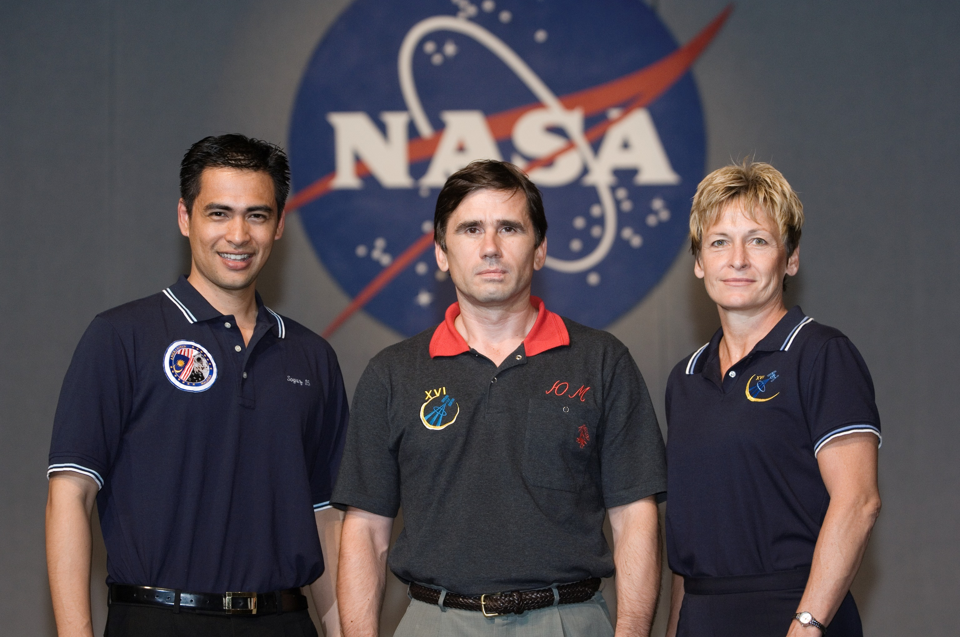 Astronaut Peggy Whitson (right), Expedition 16 commander; Russia's Federal Space Agency cosmonaut Yuri Malenchenko, flight engineer and Soyuz commander; and Malaysian spaceflight participant Sheikh Muszaphar Shukor pose for a portrait following a pre-flight press conference at the Johnson Space Center. Whitson, Malenchenko and Shukor are scheduled to launch to the International Space Station in a Soyuz spacecraft in October.